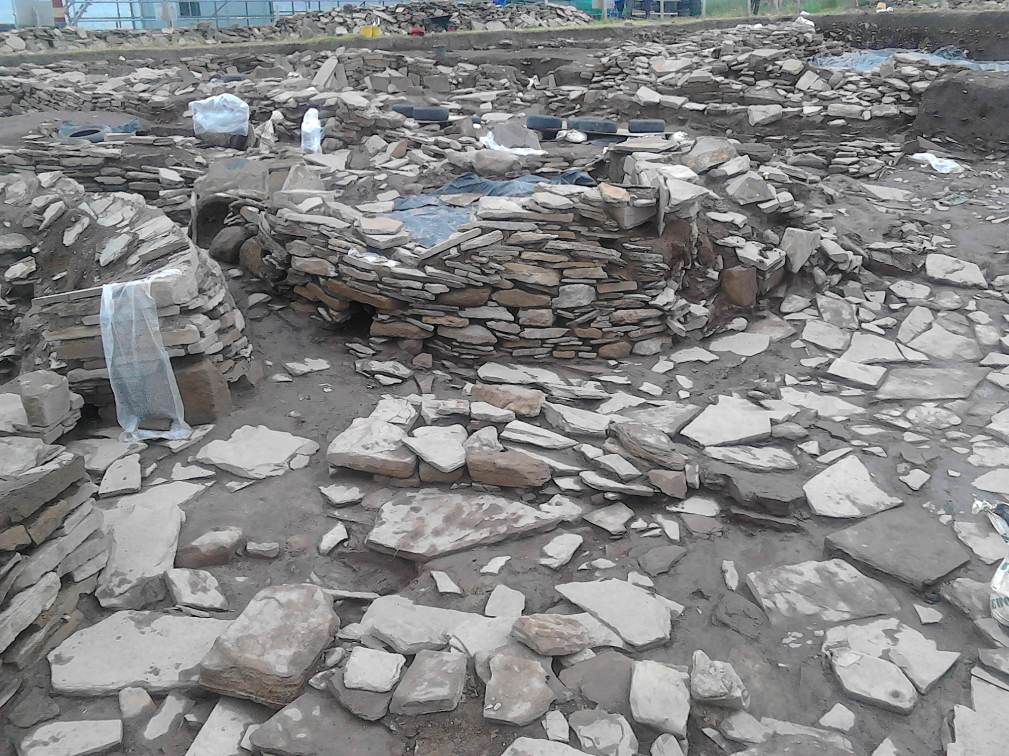 Ness of Brodgar dig 6.7.16. I'm standing with the spoil heap behind me looking northeast. The prominent structure is #11.